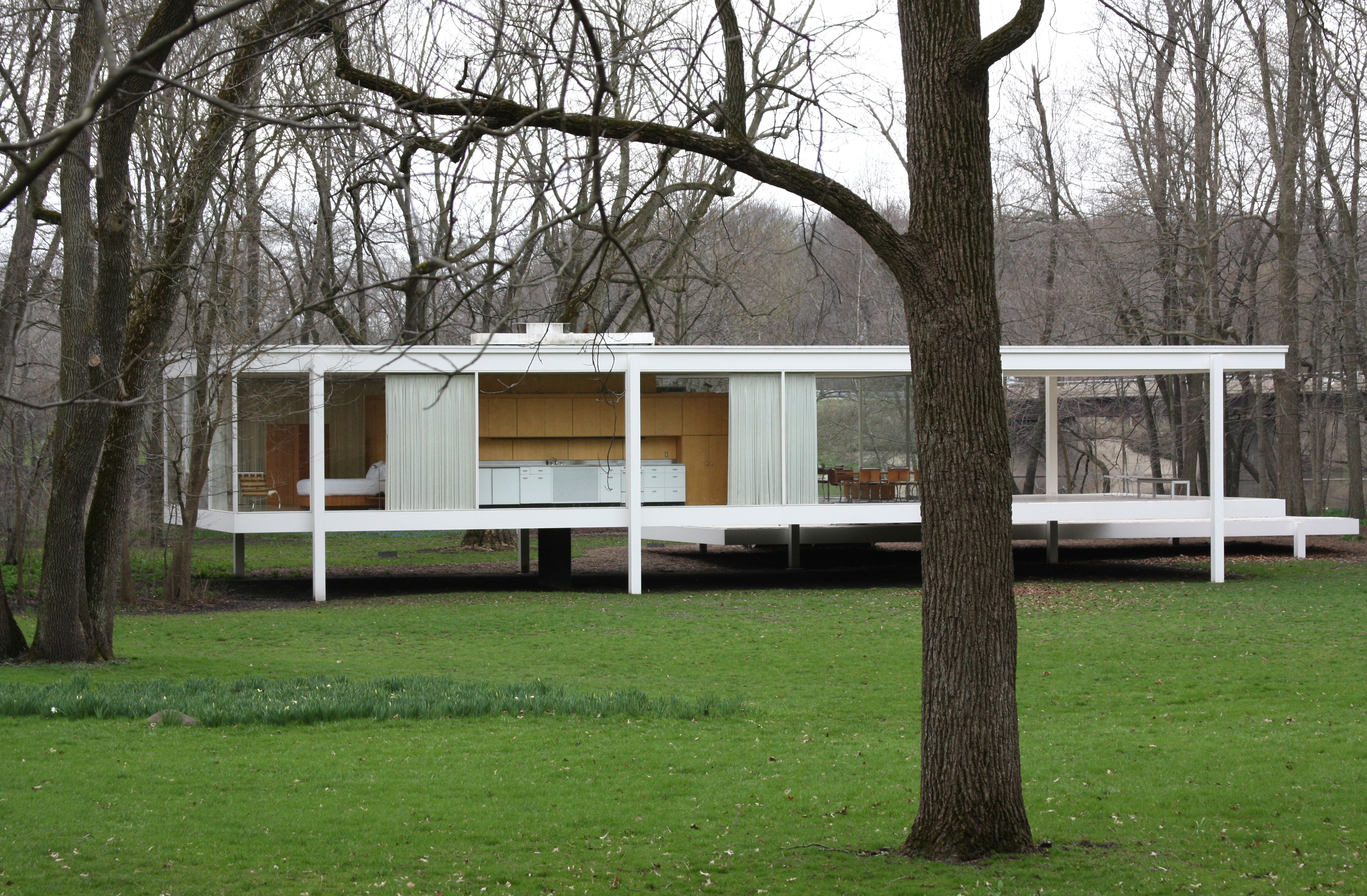 Farnsworth House (Illinois) by Mies van der Rohe